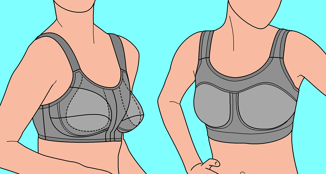 Left picture shows a woman wearing encapsulating wire-free sports bra (broken line shows inner sling). Right picture shows a woman wearing compression sports bra.